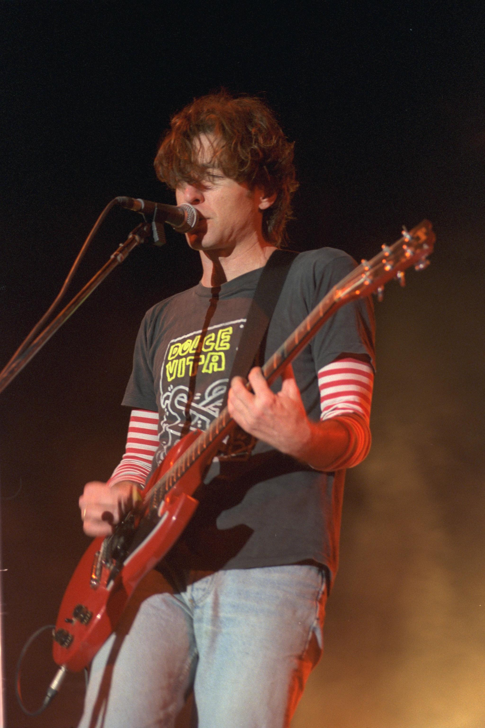 Singer Berry Sakharof performing at a rock festival in the Red Sea. ברי סחרוף מופיע בפסטיבל ערד Photo: KOREN ZIV, 04/13/1992